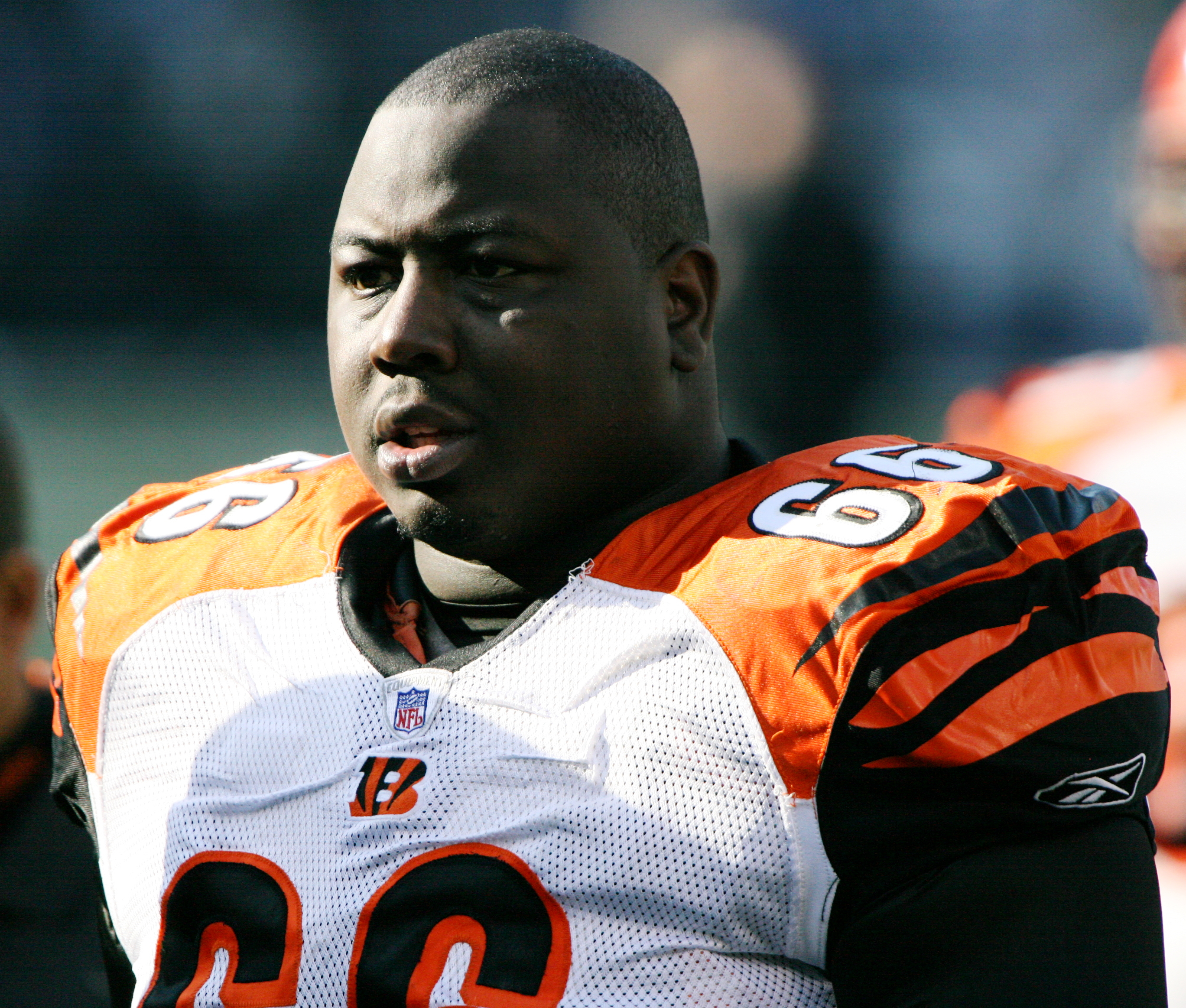 Shaun Smith, American football player for the Cincinnati Bengals (at time of photo)